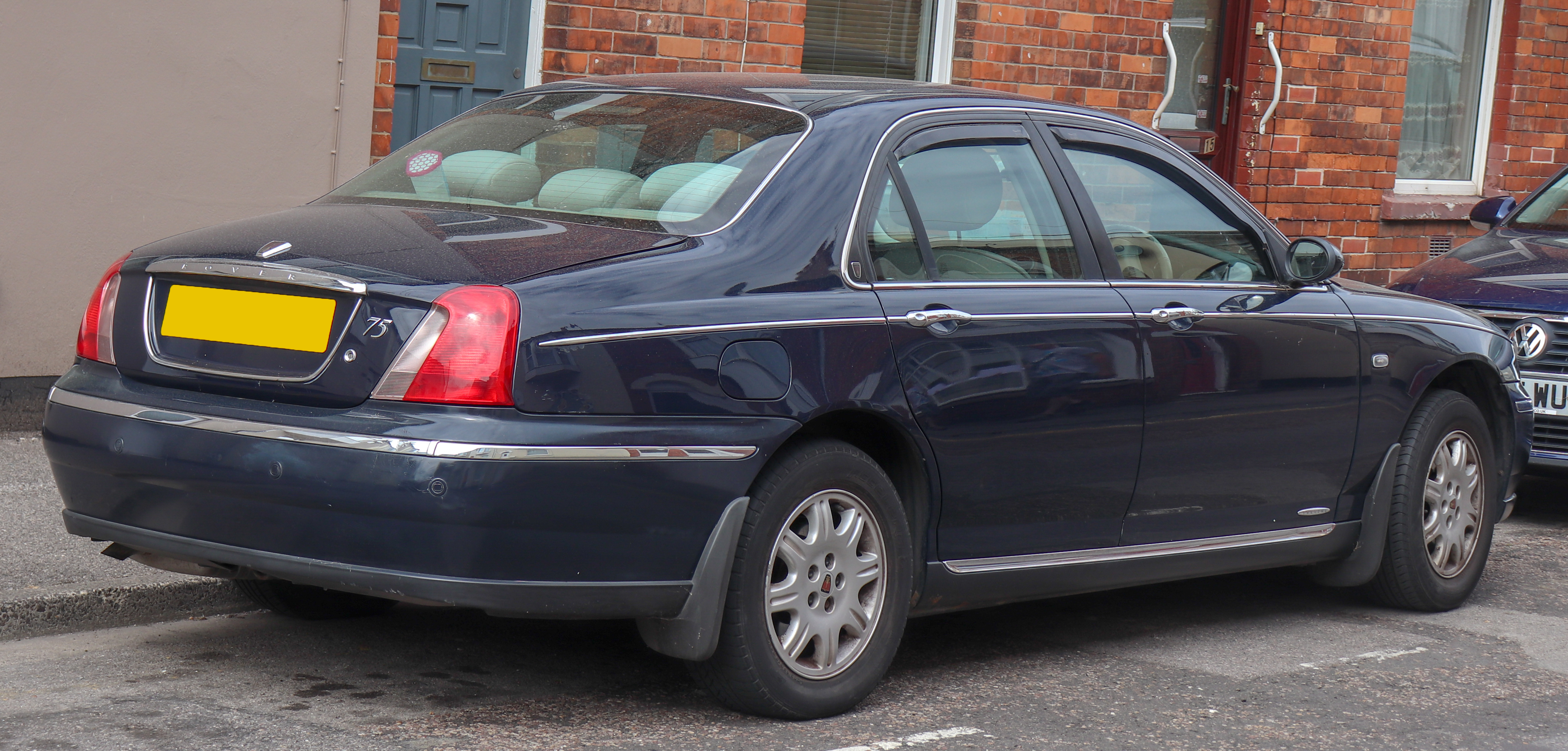 2000 Rover 75 Classic SE 1.8 Rear Taken in Weymouth, Dorset